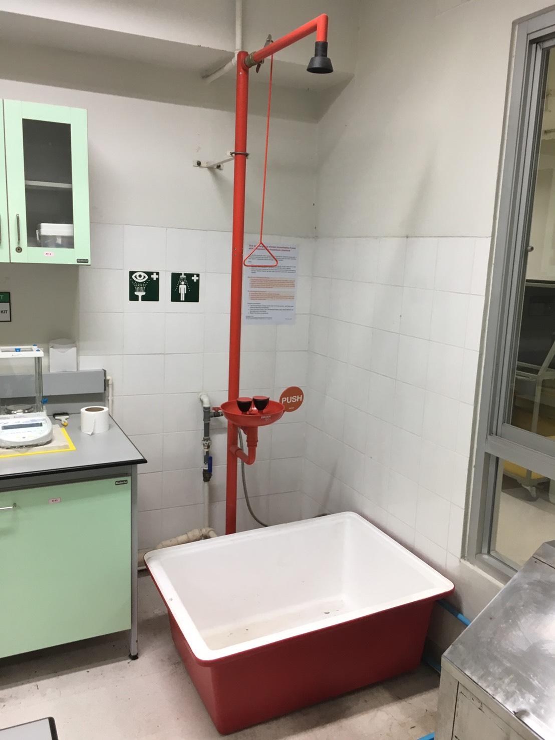 Picture of Emergency eyewash and shower